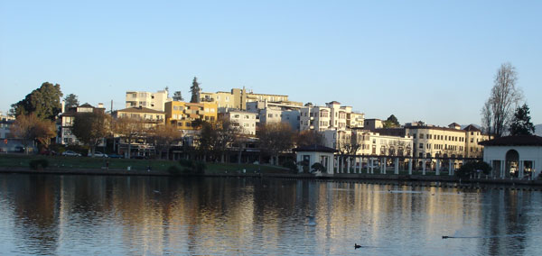 Looking towards the Adams Point neighborhood and Grand Avenue side of Lake Merritt, from Lakeshore Avenue — in Oakland, California. The group of apartments on the hill in the foreground are on Burk and Lagunitas streets and are typical of the apartments found throughout the Adams Point neighborhood. Photo taken and submitted to Wikipedia by Aran Johnson.